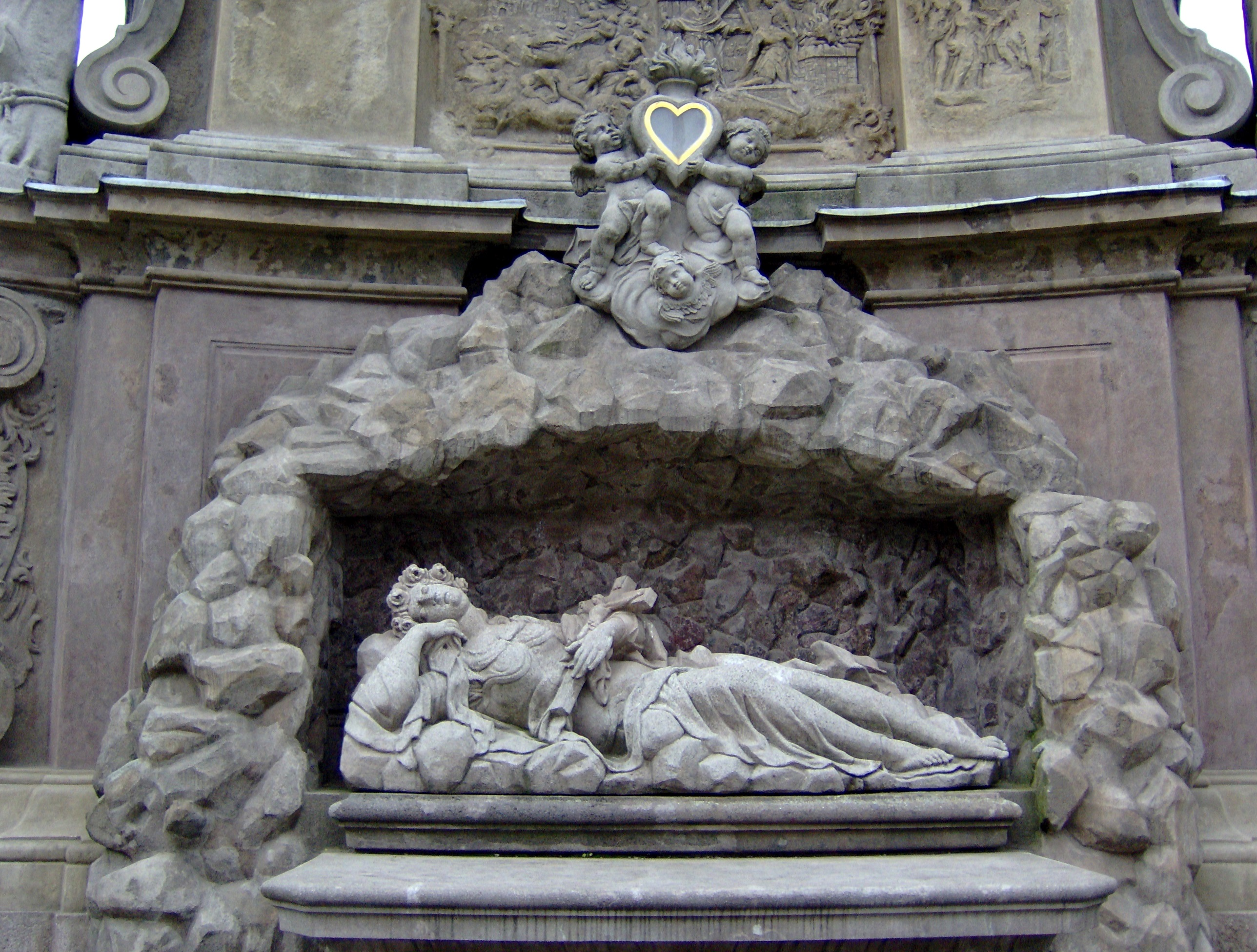 The Holy Trinity Plague Column in Kremnica